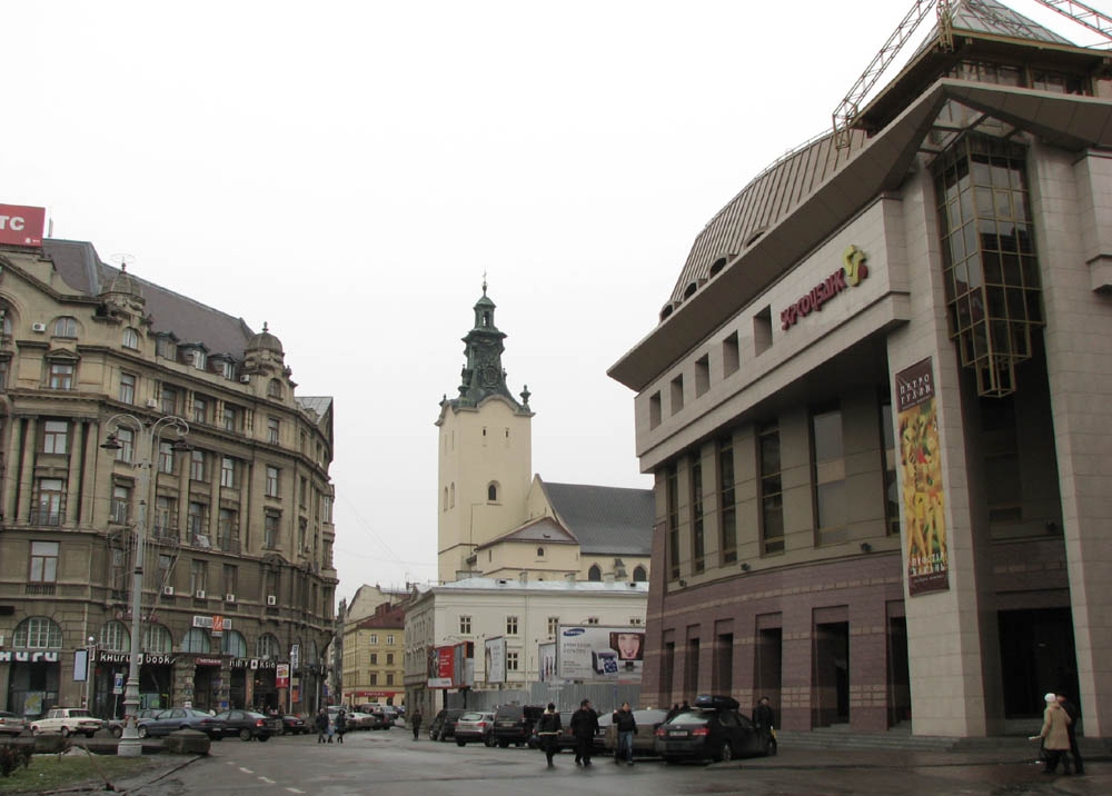 Part of Mickewicz square in Lviv. Building no 8 (left), Ukrsotsbank (right). At the centre - tailings of the burned building